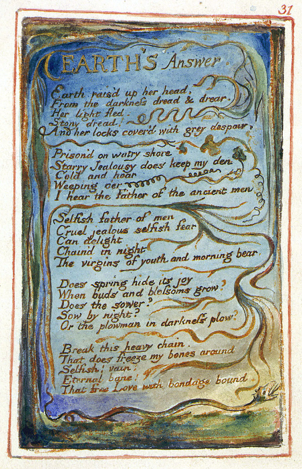 Songs of Innocence and of Experience, copy Z, 1826 (Library of Congress) object 31 Earth's Answer